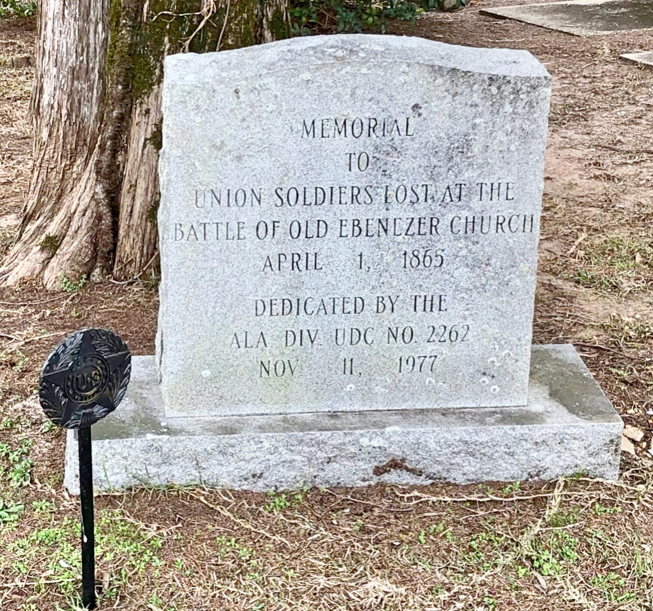 Located in Ebenezer Baptist Church Cemetery, Stanton, Alabama